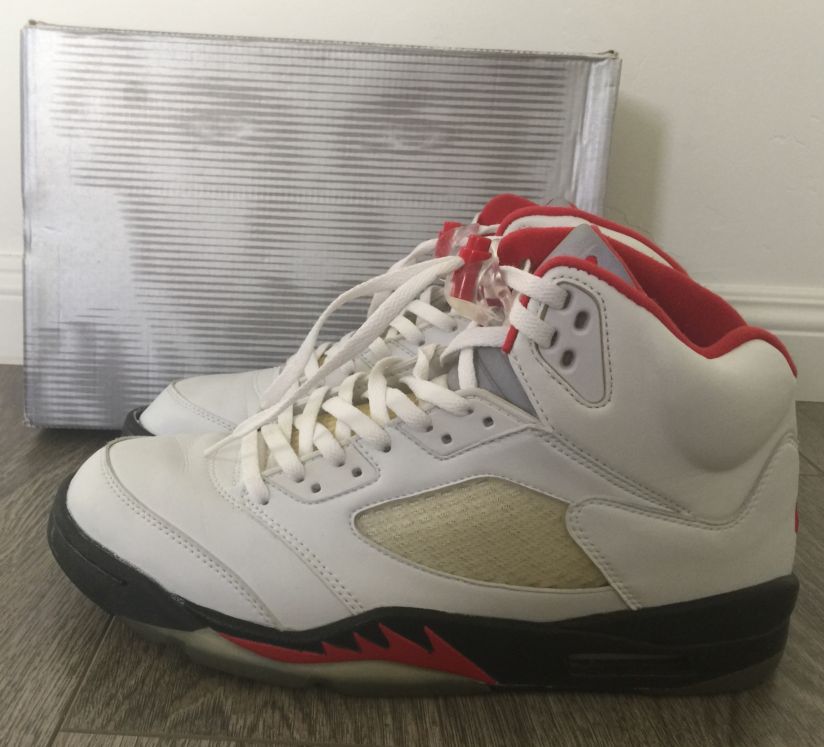 Nike Air Jordan V (Fire Red Colorway)